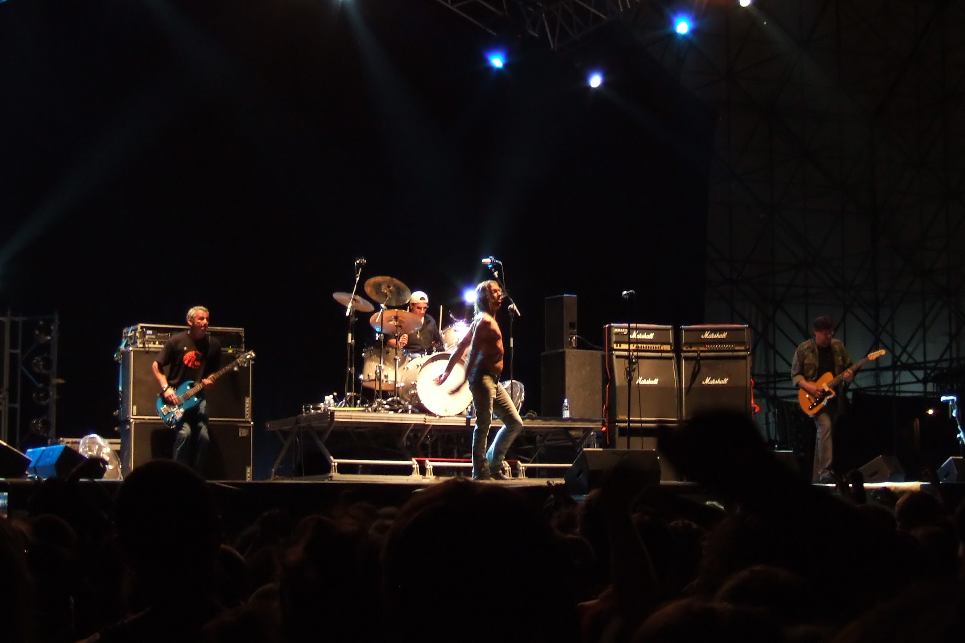 The Stooges.